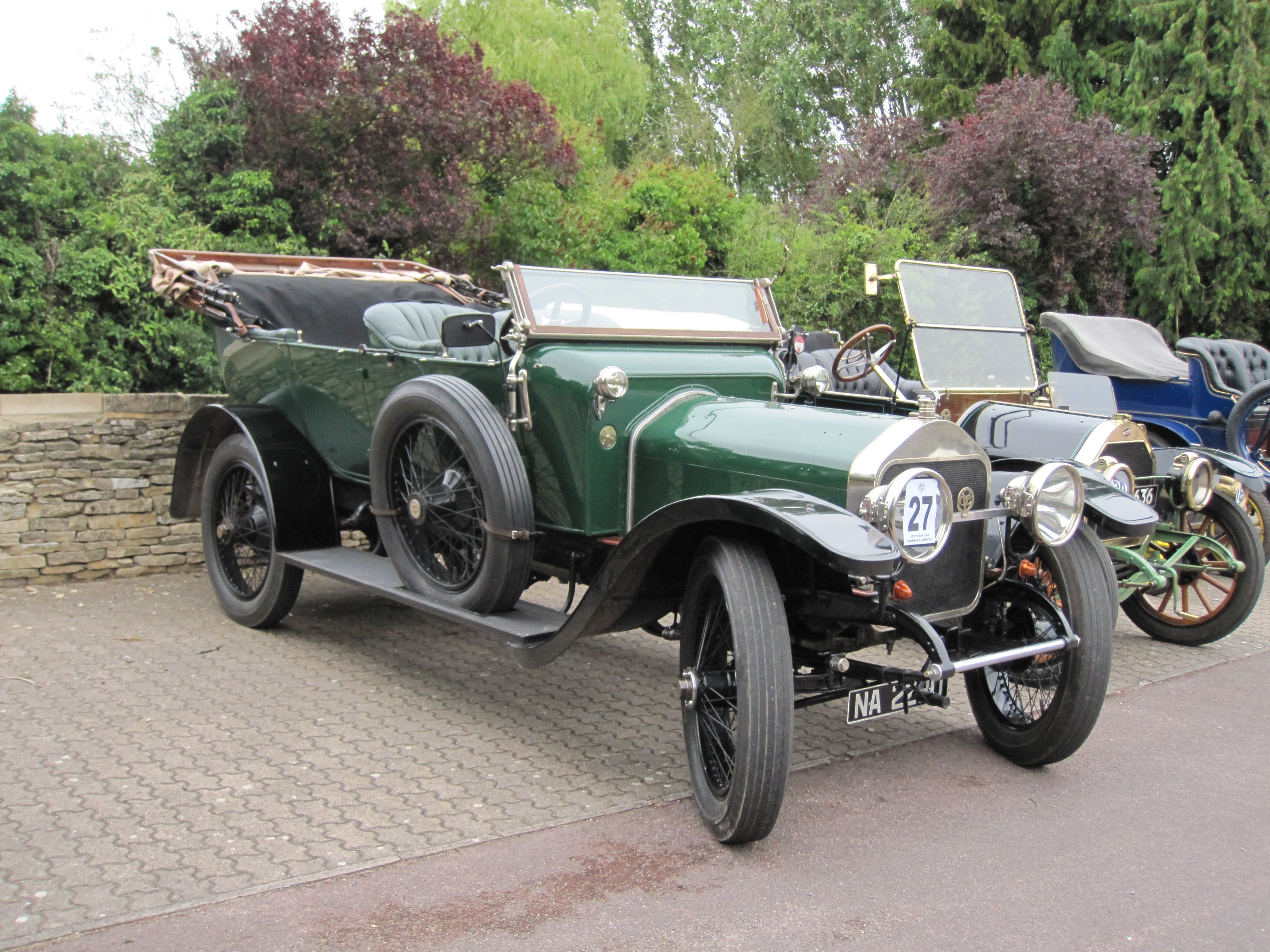 1912 Wolseley 24-30hp Colonial (DVLA) Veteran Car Club of Great Britain Cotswold Caper